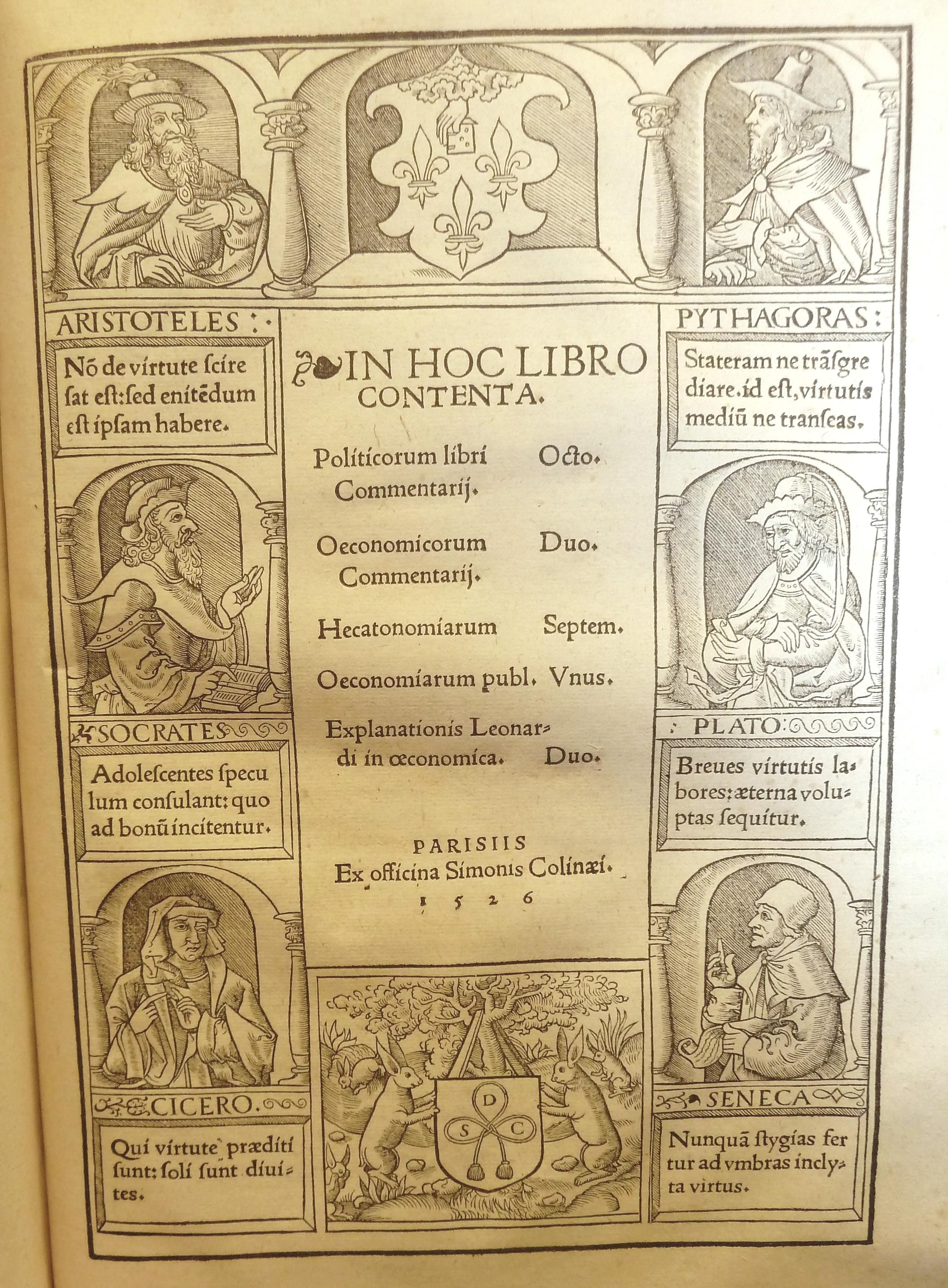 A woodcut title page printed by Simon de Colines (Simonis Colinaei, as it is Latinised) in 1526.